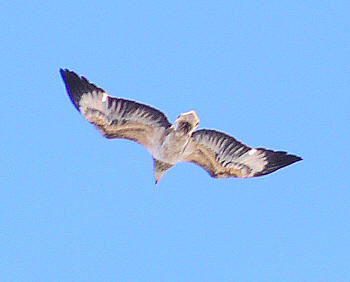 White Bellied Sea-Eagle (Juvenile) Photograph by author, 13-Jul-2006, Wattamolla Beach NSW Australia